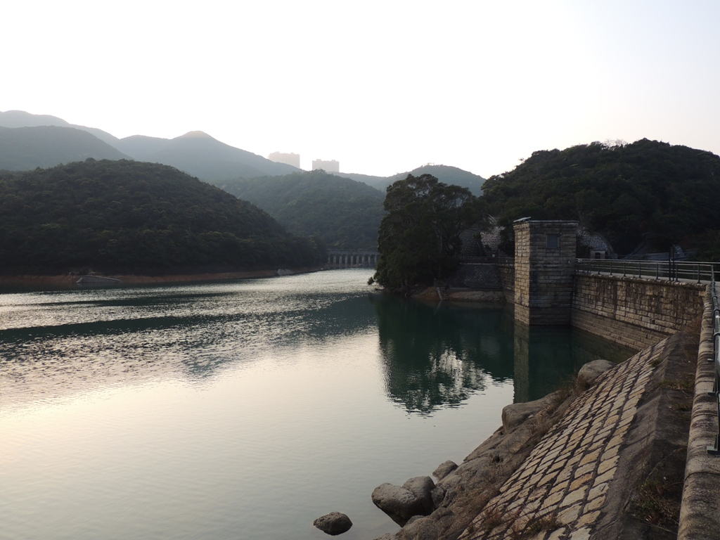 Tai Tam Byewash Reservoir Subsidiary Dam